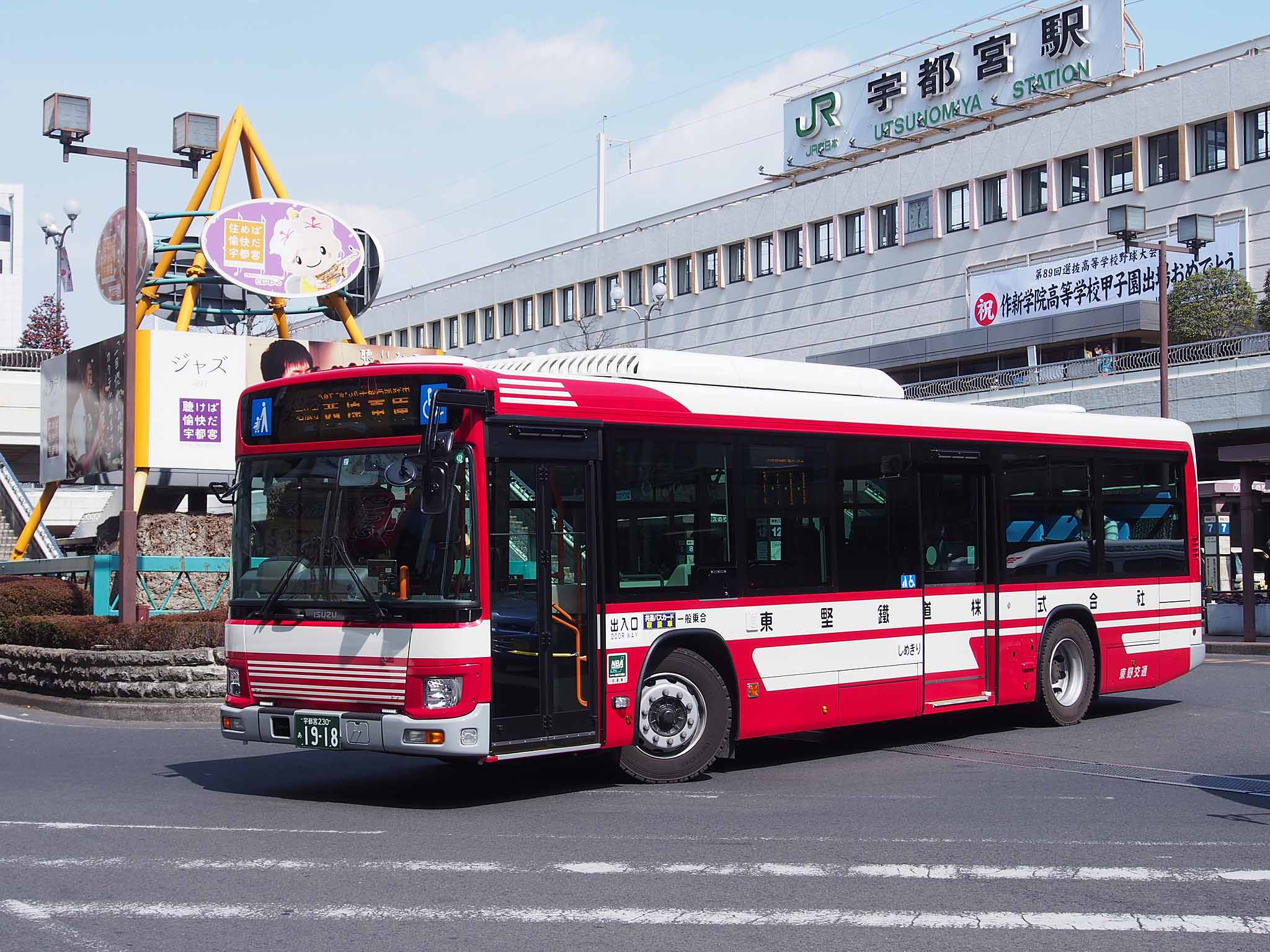 Fleet of Toya Kotsu, marked "Toya Railway" for own 100th anniversary. Model: Isuzu ERGA LV290 License plate: TGU230 A1918 Place: JR Utsunomiya Station